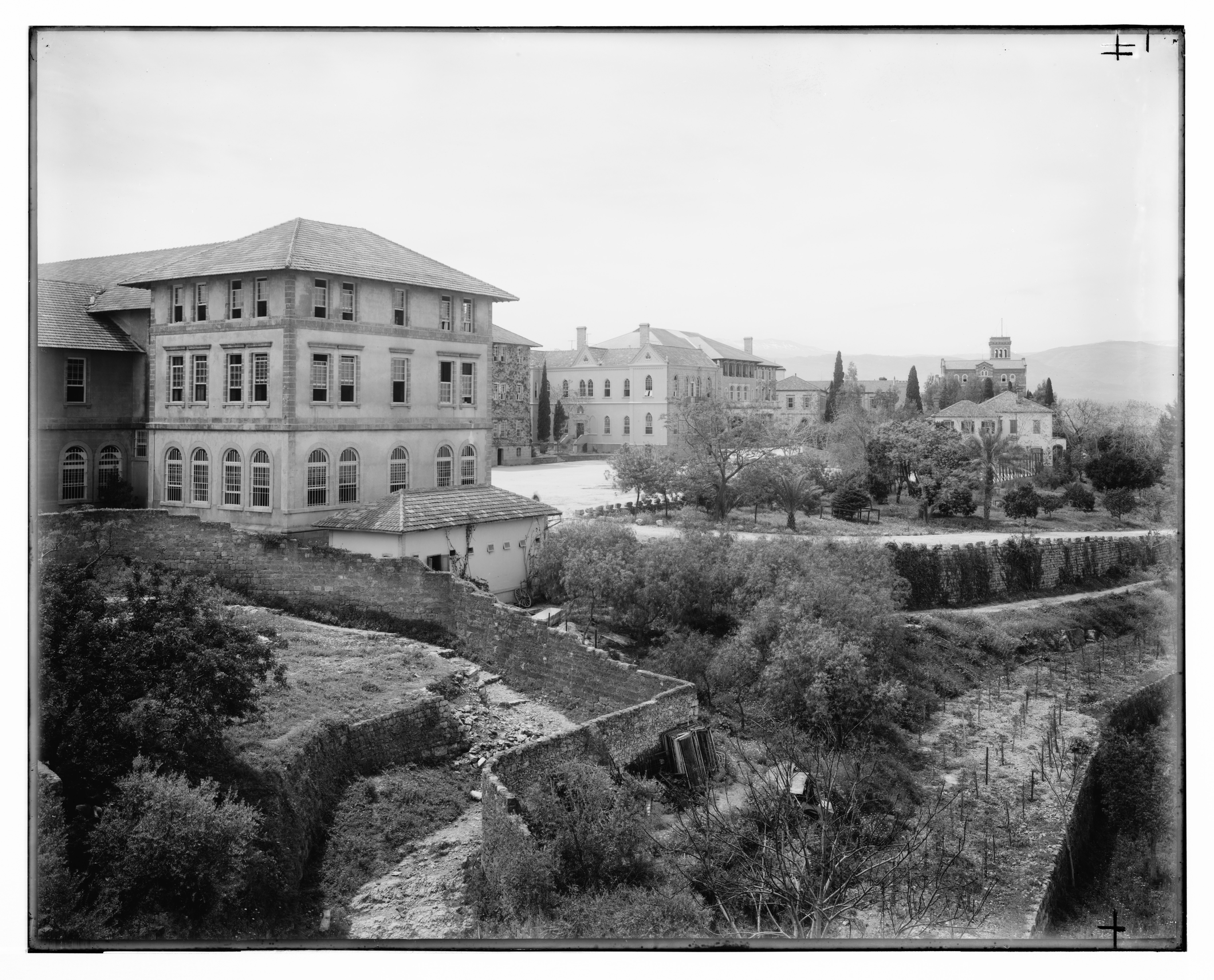 Title: Buildings of American University, Beirut Abstract/medium: G. Eric and Edith Matson Photograph Collection Physical description: 1 negative